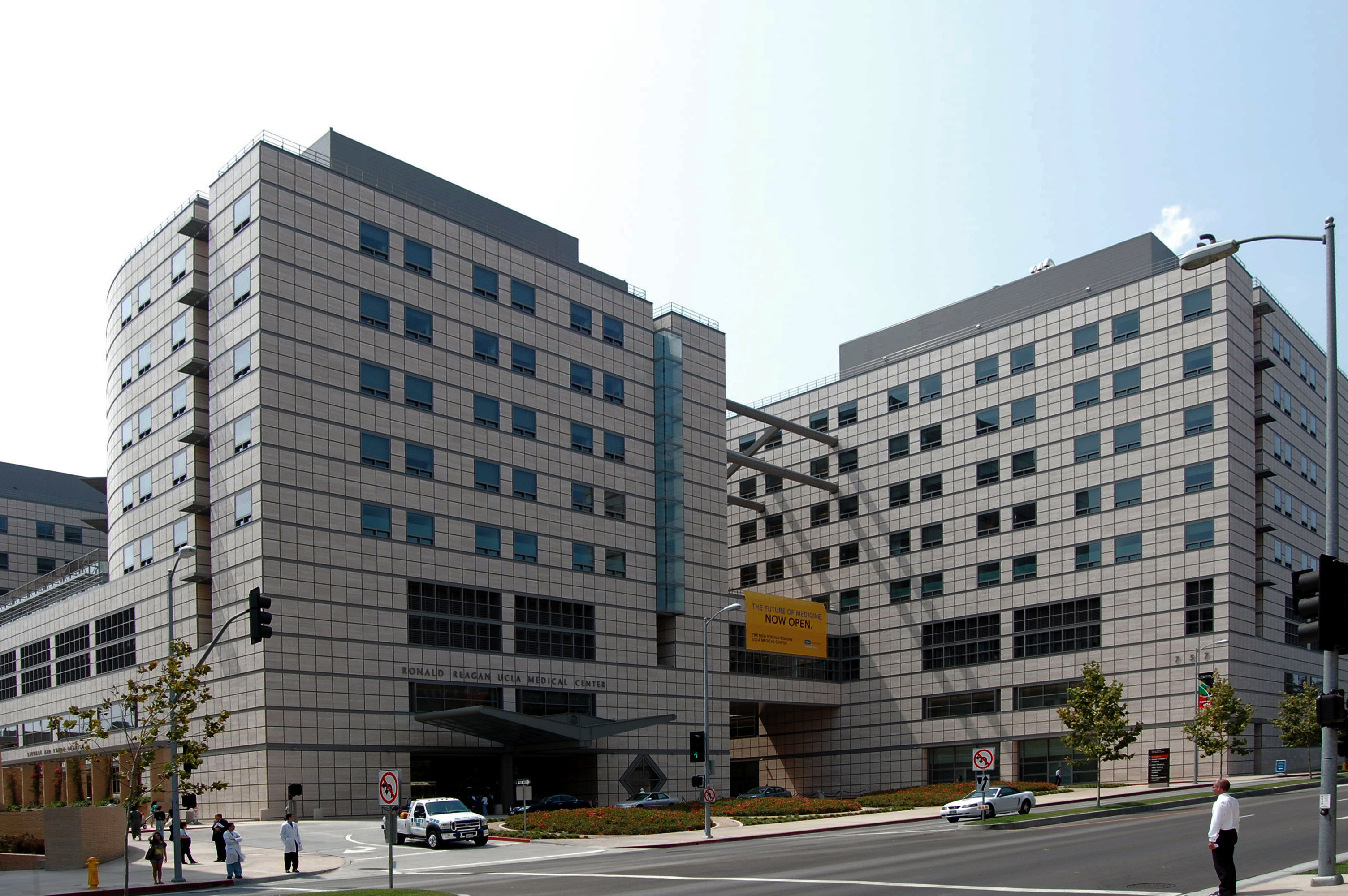 The new UCLA Ronald Reagan Medical Center, from the south-west looking across Westwood Bl.